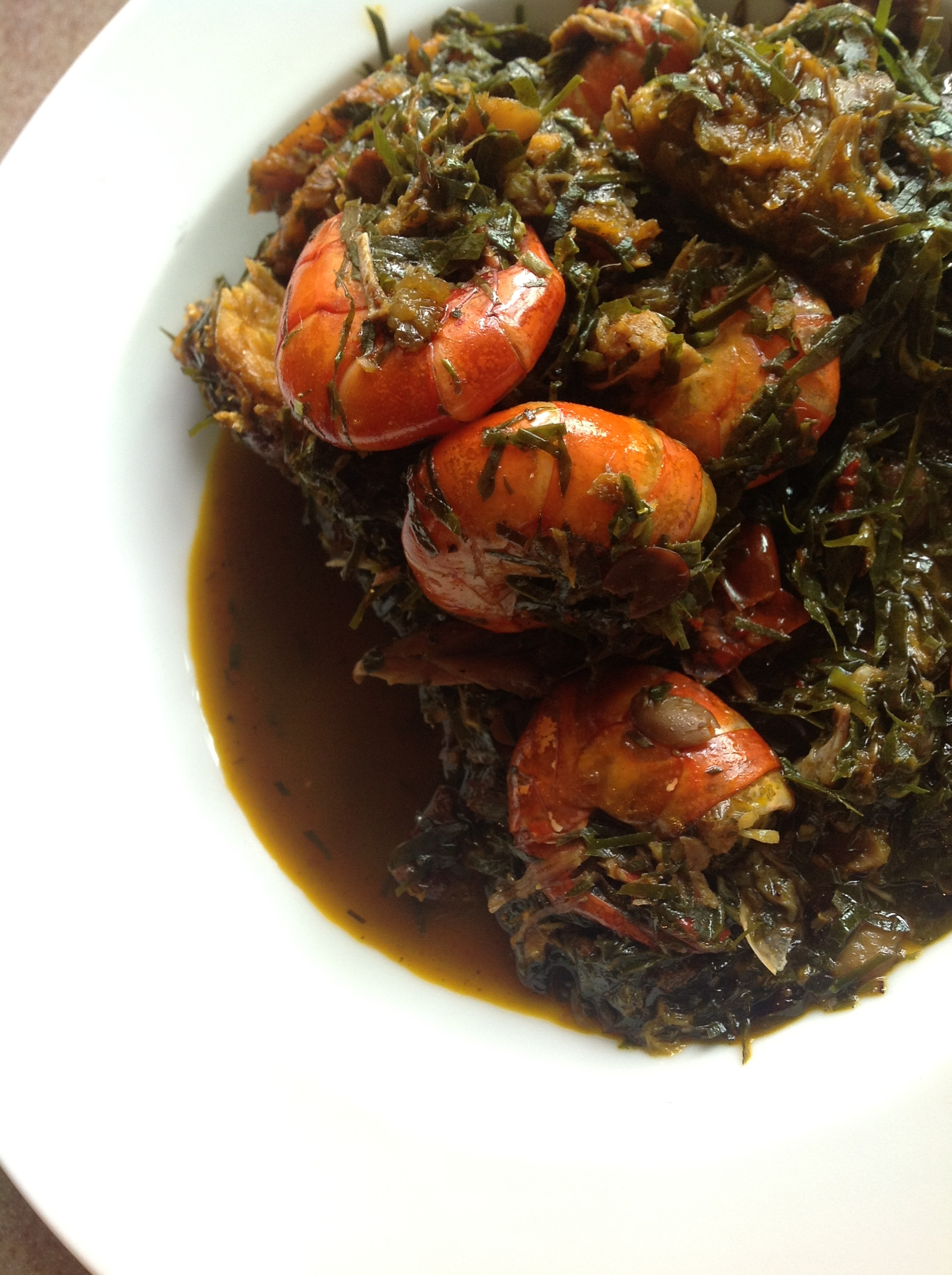 This soup is solid proof of the hedonistic superiority of Cross Riverian cuisine. I love the utter salubriousness of it. You won’t catch me cooking Afang Soup in Lagos because I need that palm oil that comes just after the first rains from Boki in Cross River State. If you don’t have good palm oil, please don’t bother to try and cook Afang Soup. The very essence of it is the excess pool of palm oil and it has to be the very best quality. This is an image of food from Nigeria